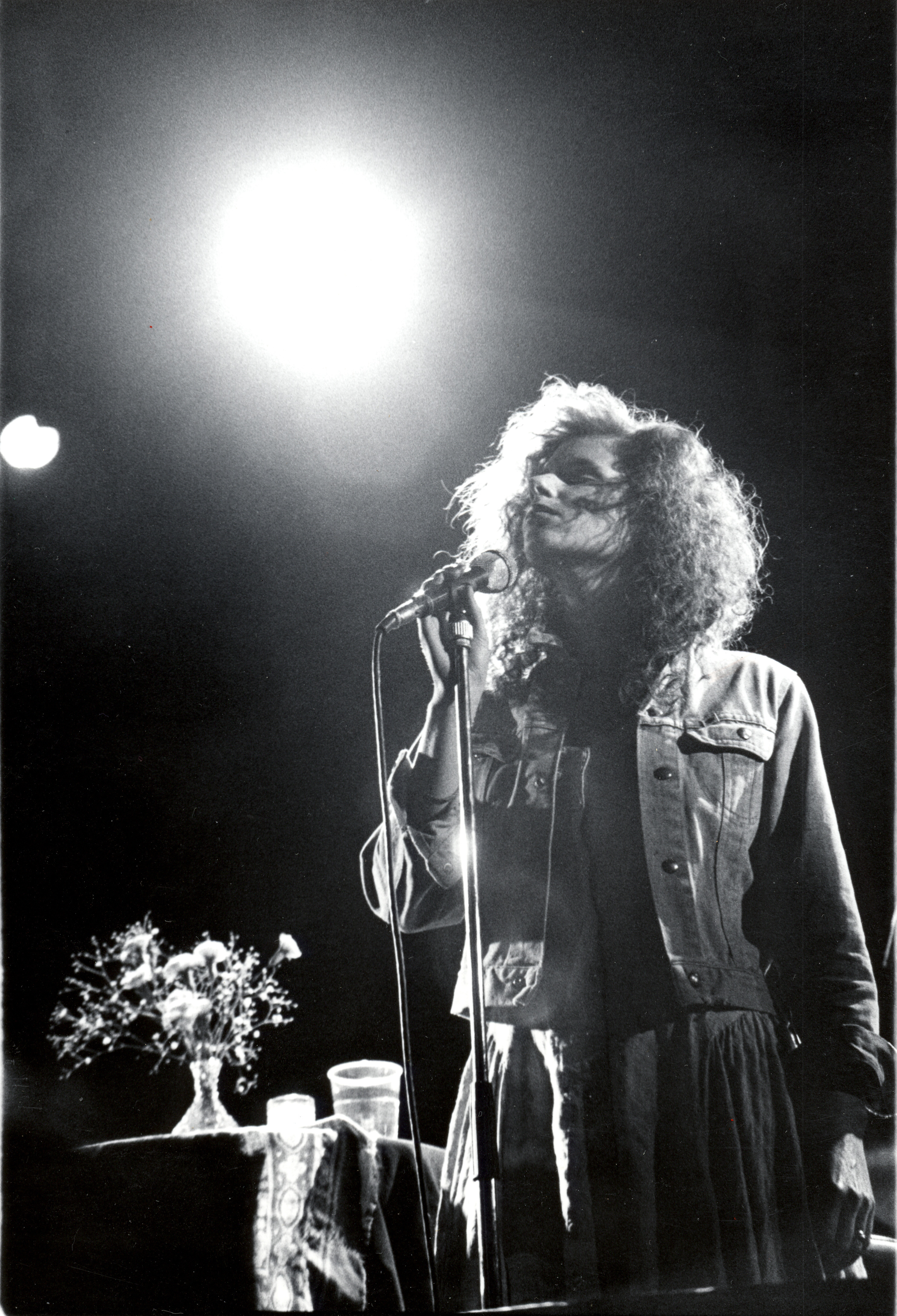 Margo Timmons, of the Cowboy Junkies in Japan